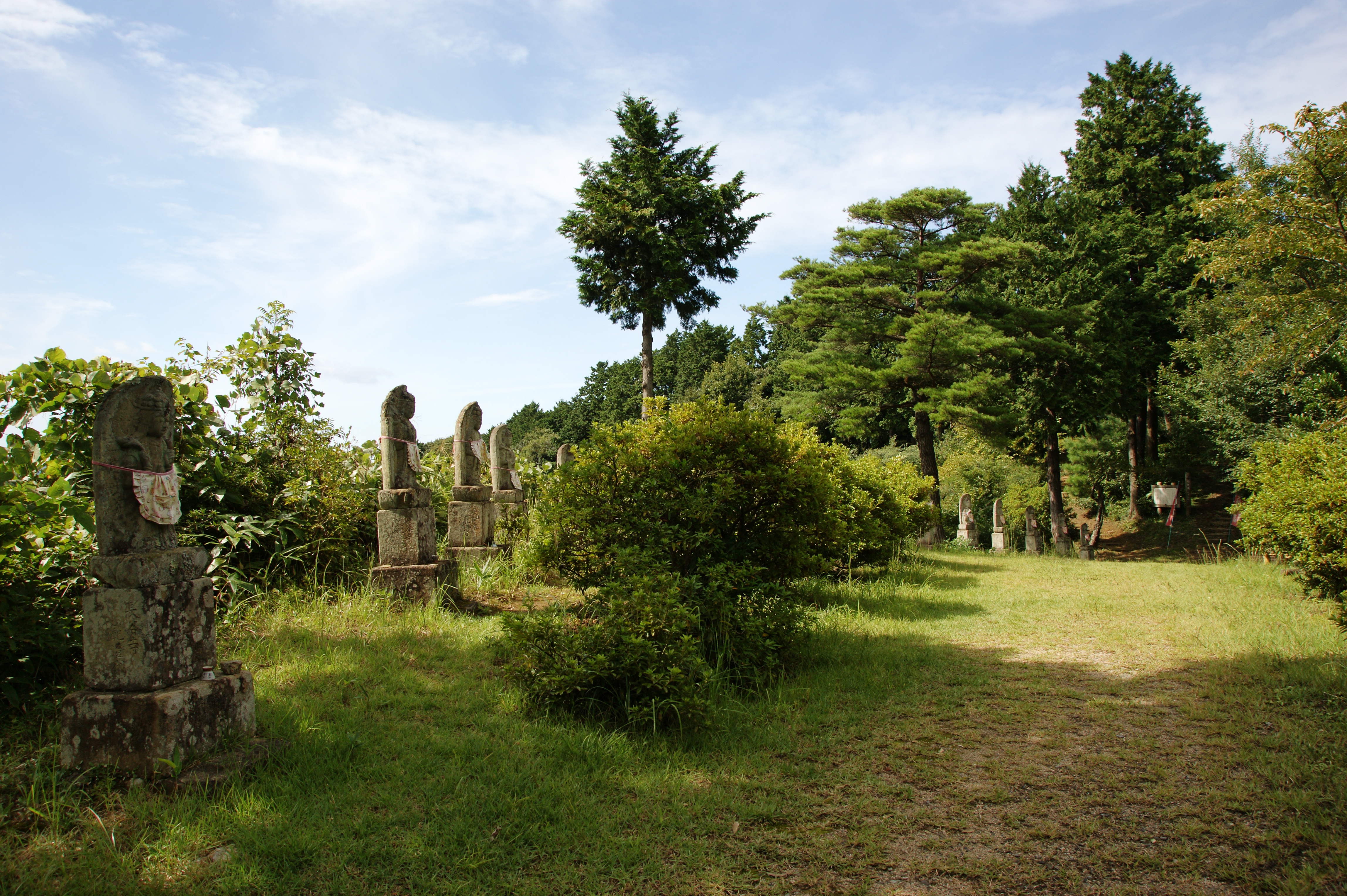 Utsubuki Castle Koshinaka-maru in Kurayoshi, Tottori prefecture, Japan